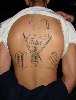 An Mara Salvatrucha member arrested in the Houston salon robbery and extortion plot displays the gang affiliation tattooed on his back.